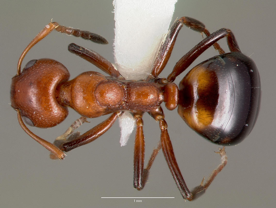 Dorsal view of ant Dolichoderus mariae specimen casent0003312.